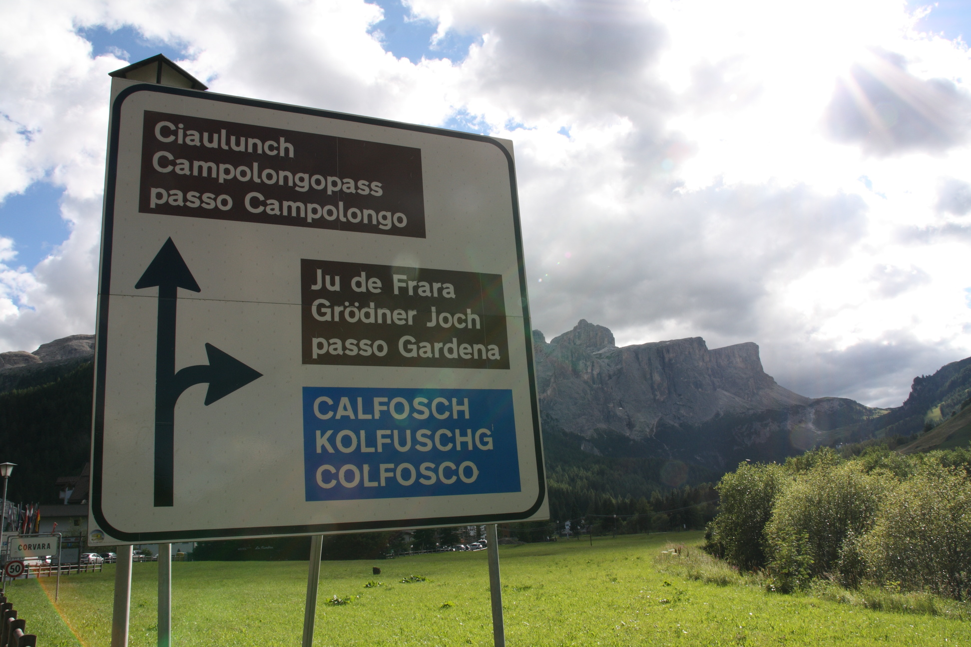 road sign in three languages (from above: Ladin, German, Italian) at northern village entrance of Corvara in Badia (German: Kurfar; Ladin: Corvara)